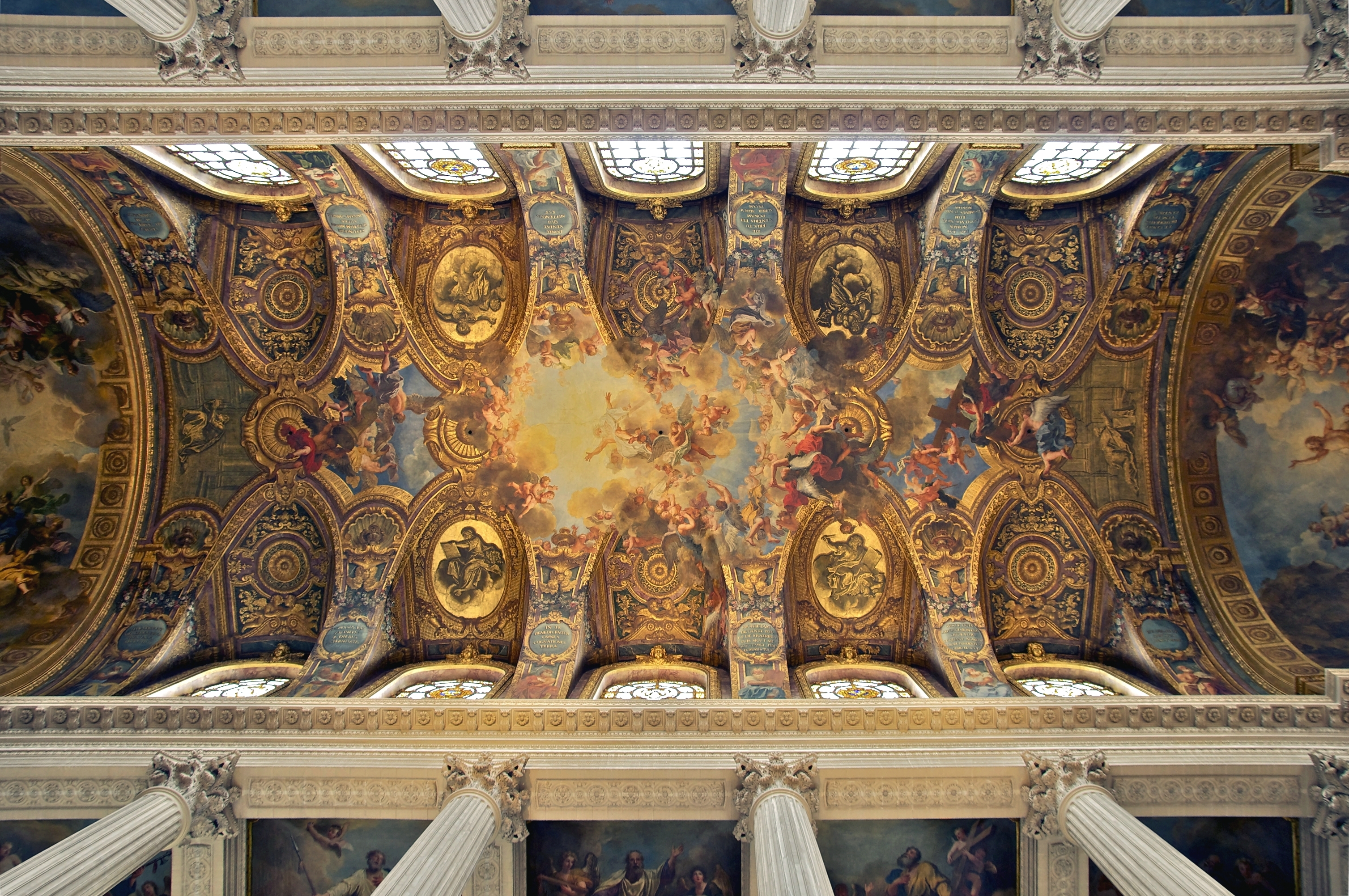 By Antoine Coypel, detail of the ceiling (ca.1710) of the Royal Chapel of Château de Versailles, Yvelines, France.